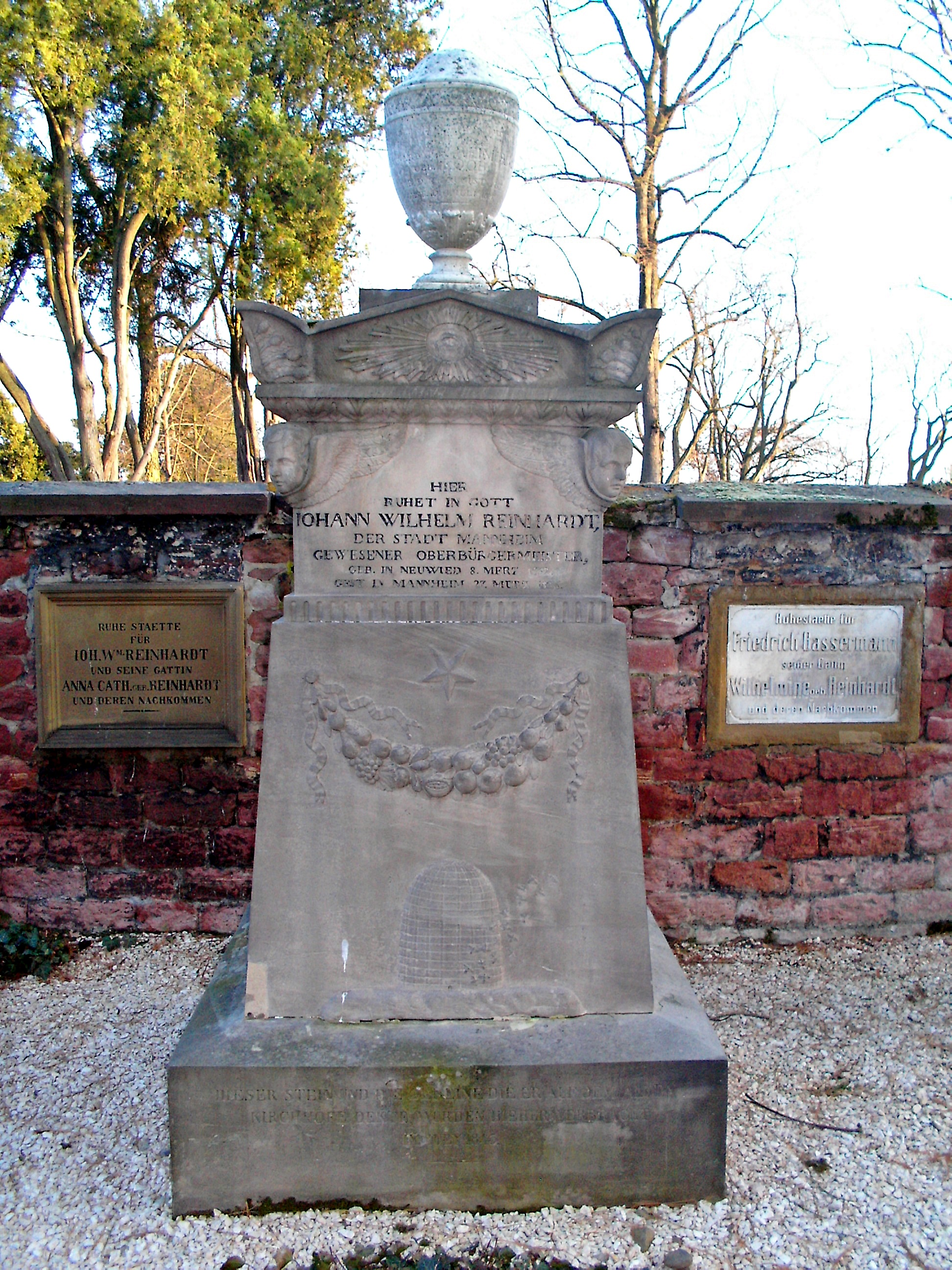 Grab Johann Wilhelm Reinhardt (1752-1826), Oberbürgermeister von Mannheim, Hauptfriedhof Mannheim